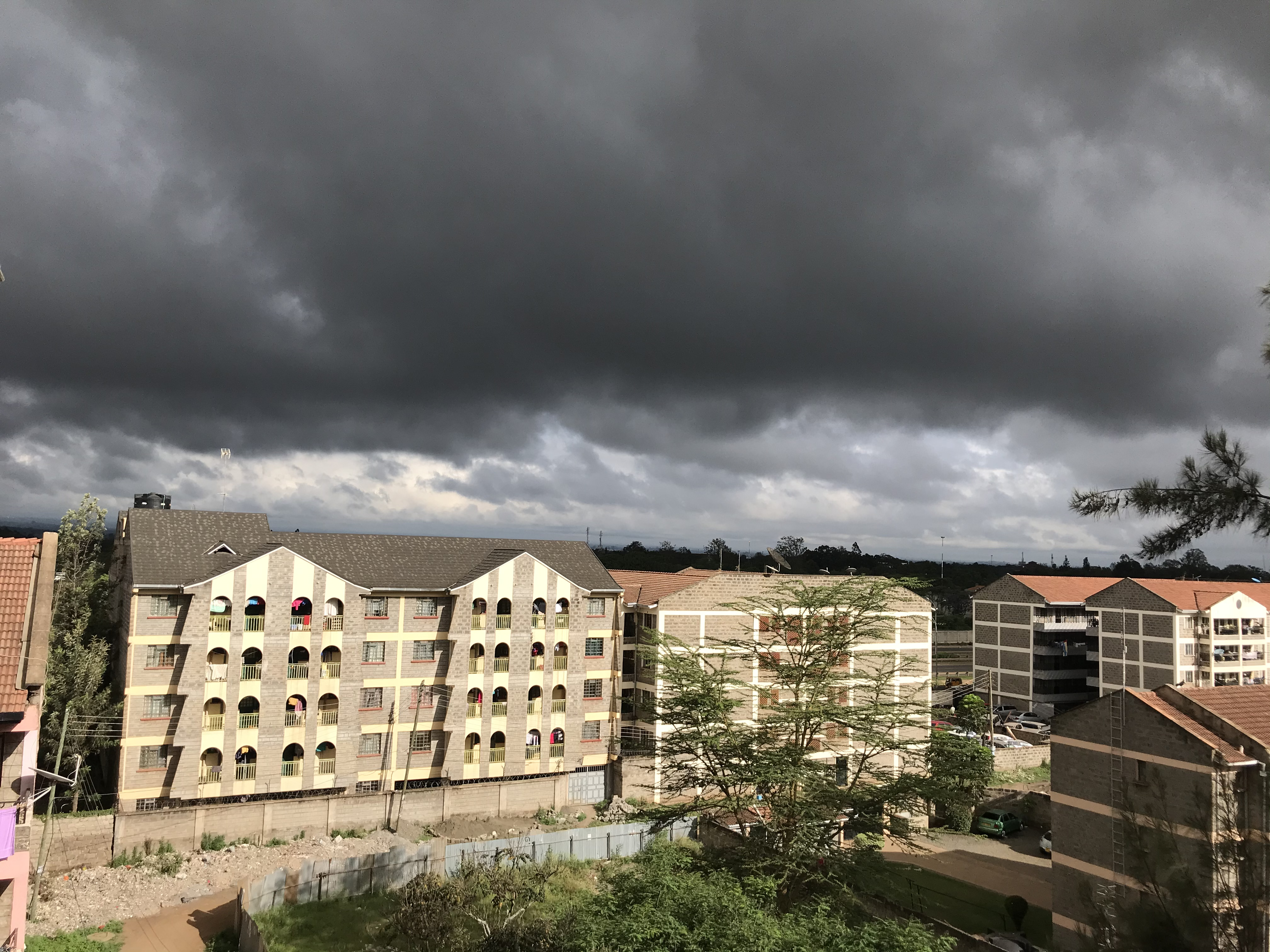 This is an image with the theme "Africa on the Move or Transport" from: Kenya